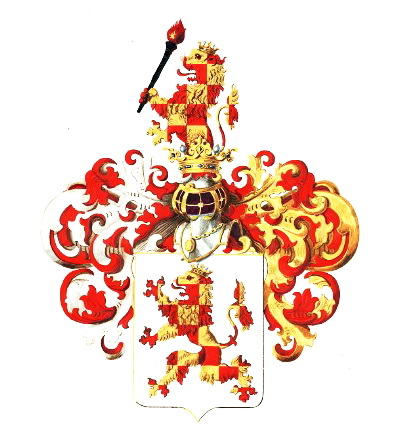 Coat of arms of the family Printz